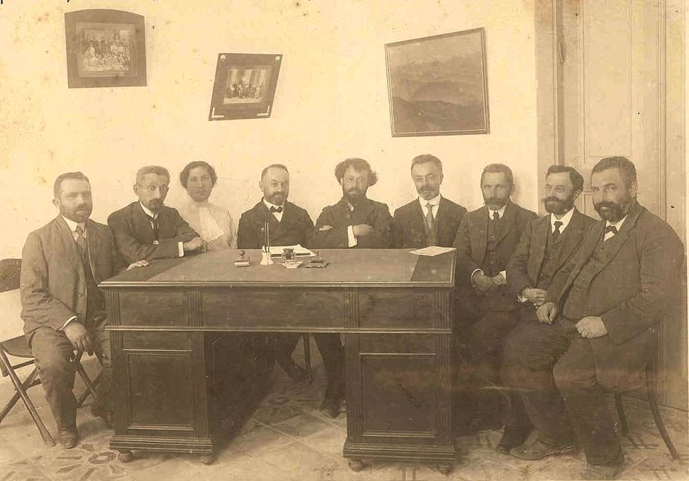 Teachers in Neve-Tzedek School, Education in Israel